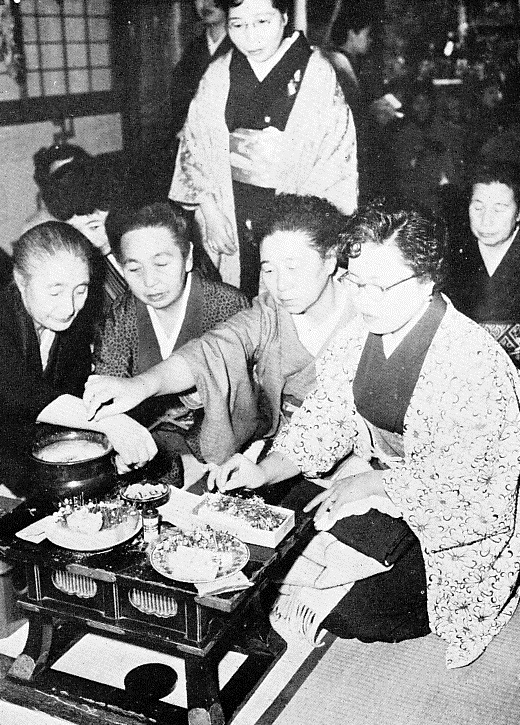 Harikuyo circa 1960